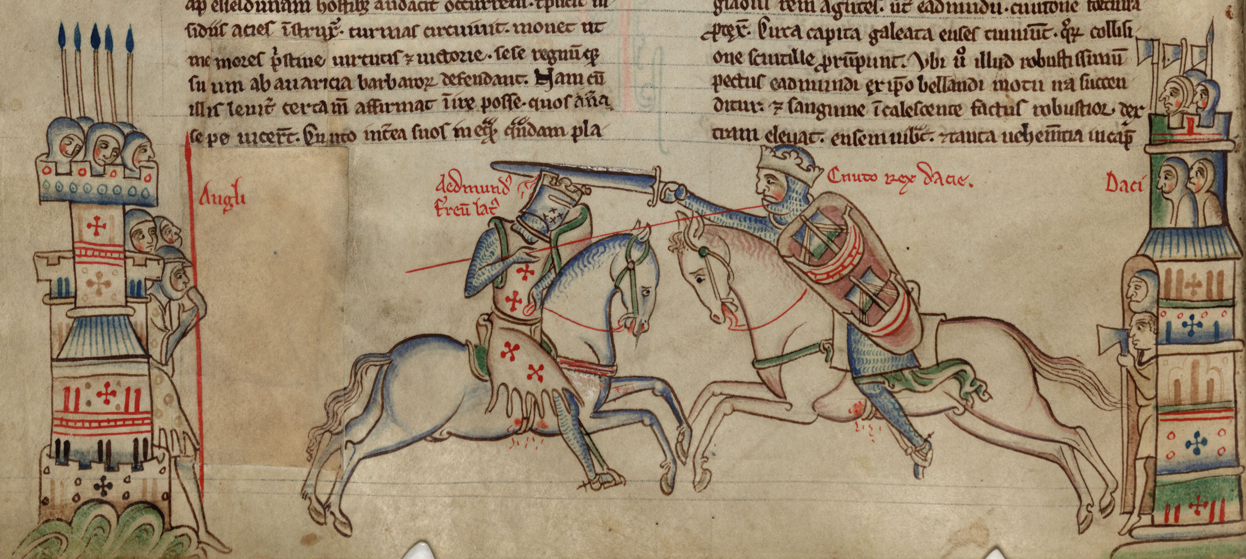 Battle of Assandun, showing Edmund Ironside (left) and Cnut the Great. (Matthew Paris, Chronica Majora, Cambridge, Corpus Christi College MS. 26, fol. 80v)